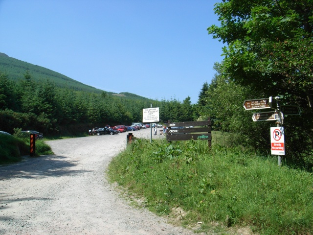 Crone Wood Car Park. The car park at Crone Wood near Powerscourt Waterfall. Used by those walking locally and hardier types travelling the Wicklow Way route.